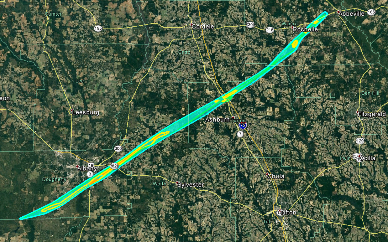 Damage swath from the January 22, 2017, Albany, Georgia, tornado